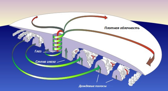 Cross-section schematic of a mature tropical cyclone